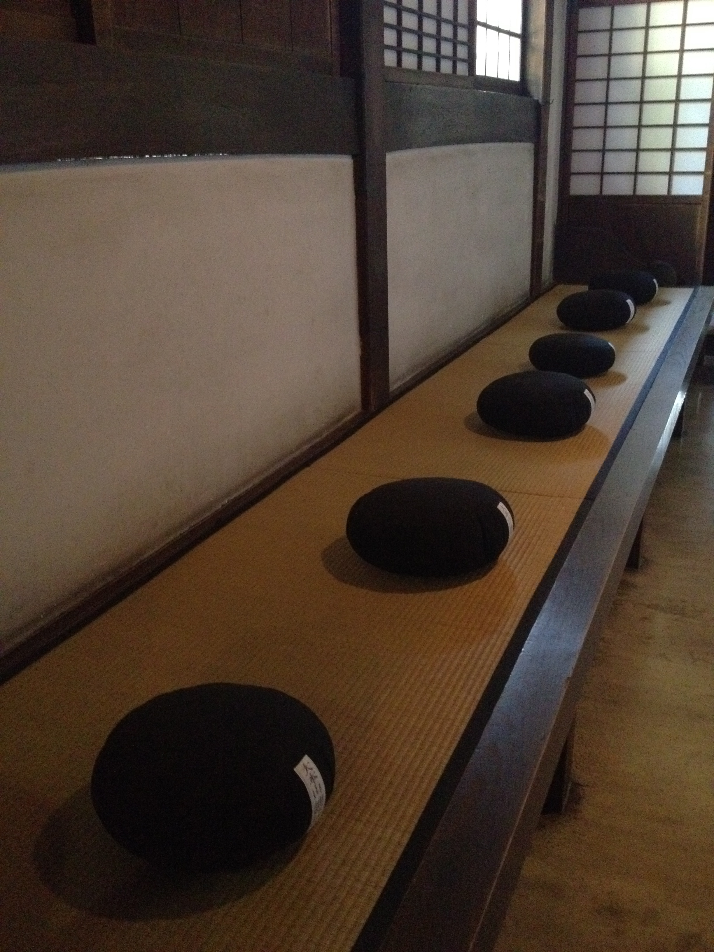 Zafus for the monks at Sōji-ji, Tsurumi-ku, Yokohama, Japan